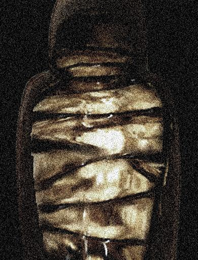 Mellified Man